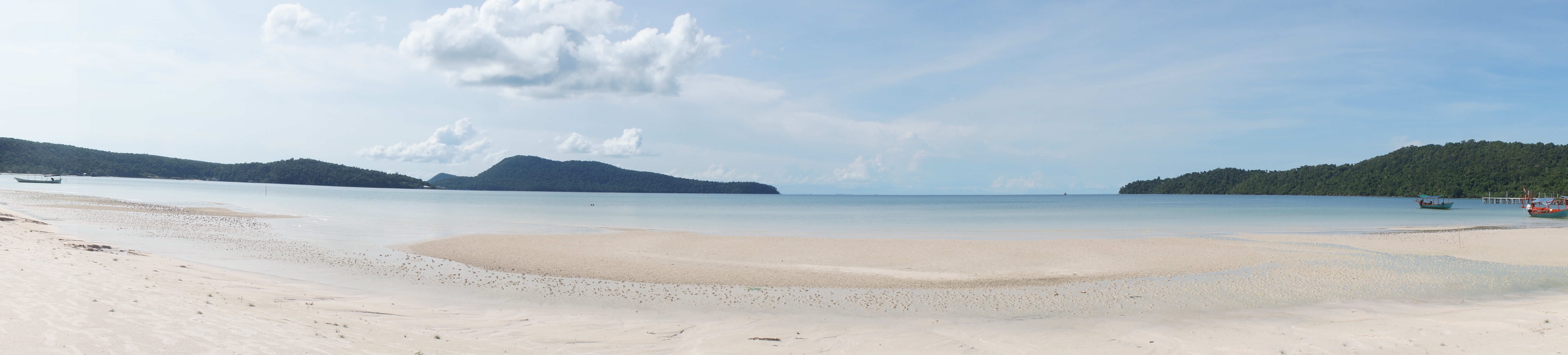 photo depicting a panoramic view of Saracen Bay beach, pointing North-East towards the mouth of the bay shot from the eastern end of Saracen Bay Beach near the pier of Paradise Villa